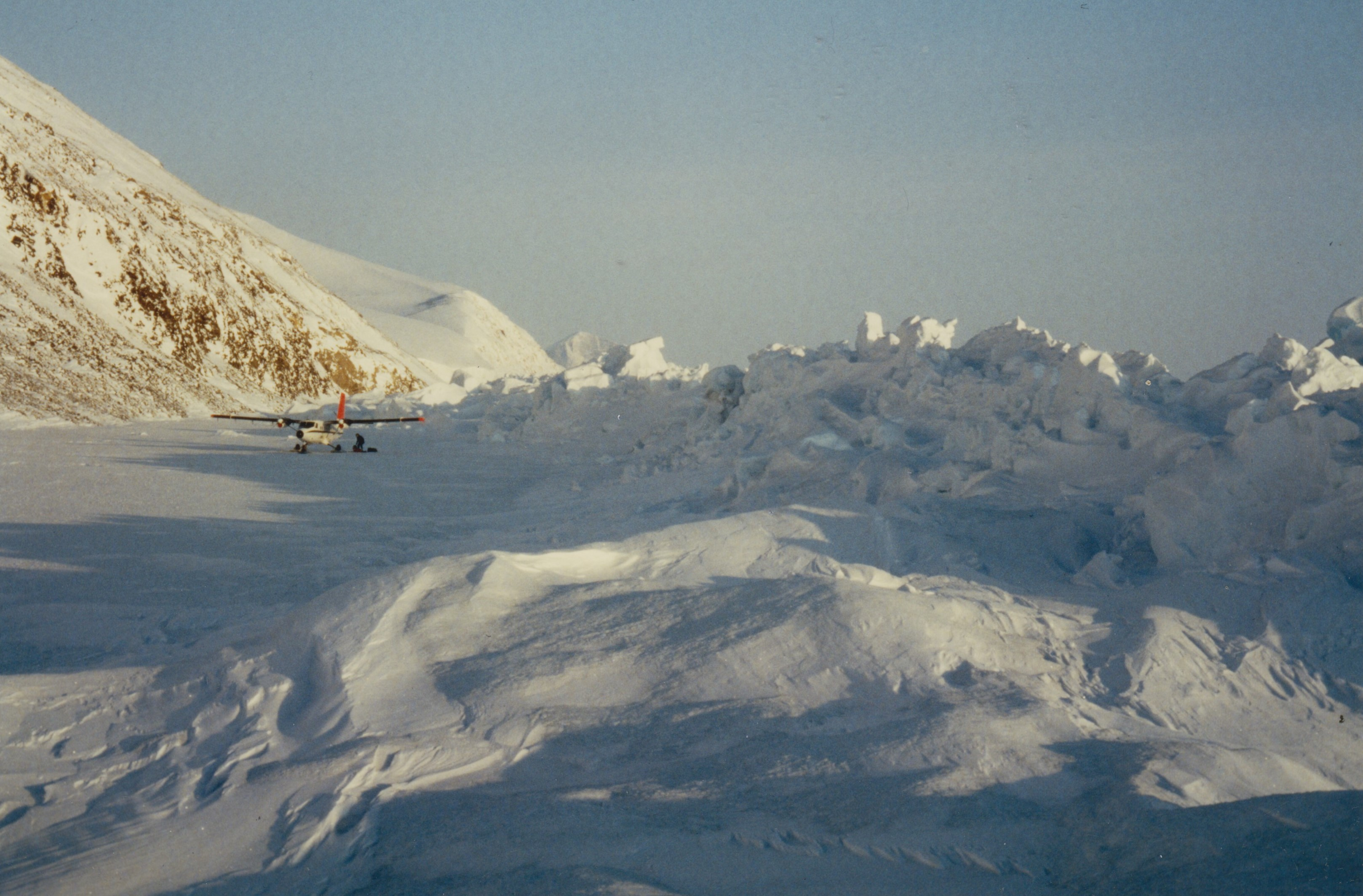 Pressure ridge of sea ice at Cape Columbia, April 18, 1990